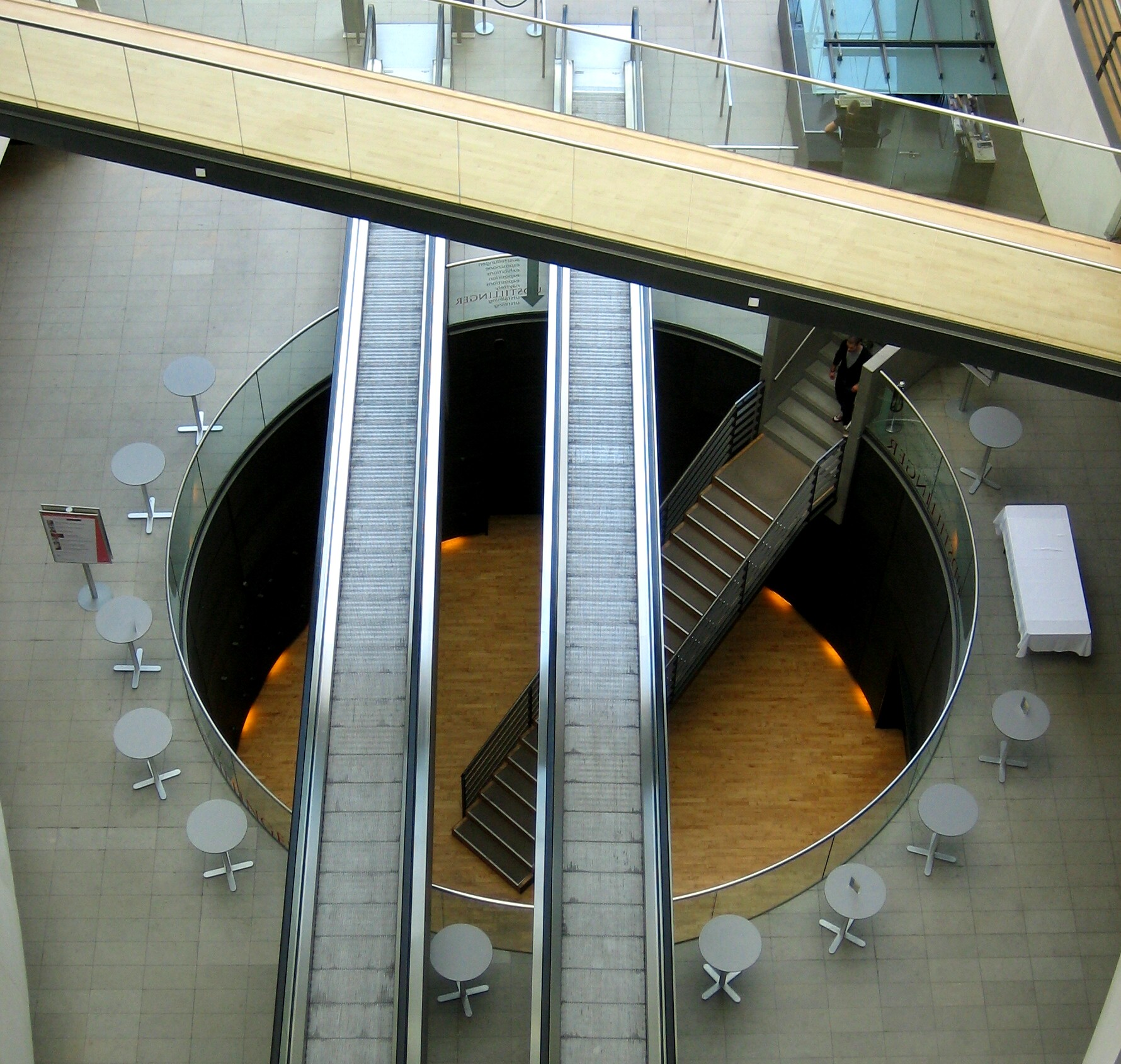 The atrium of the Black Diamond extension of the Royal Danish Library in Copenhagen, Denmark